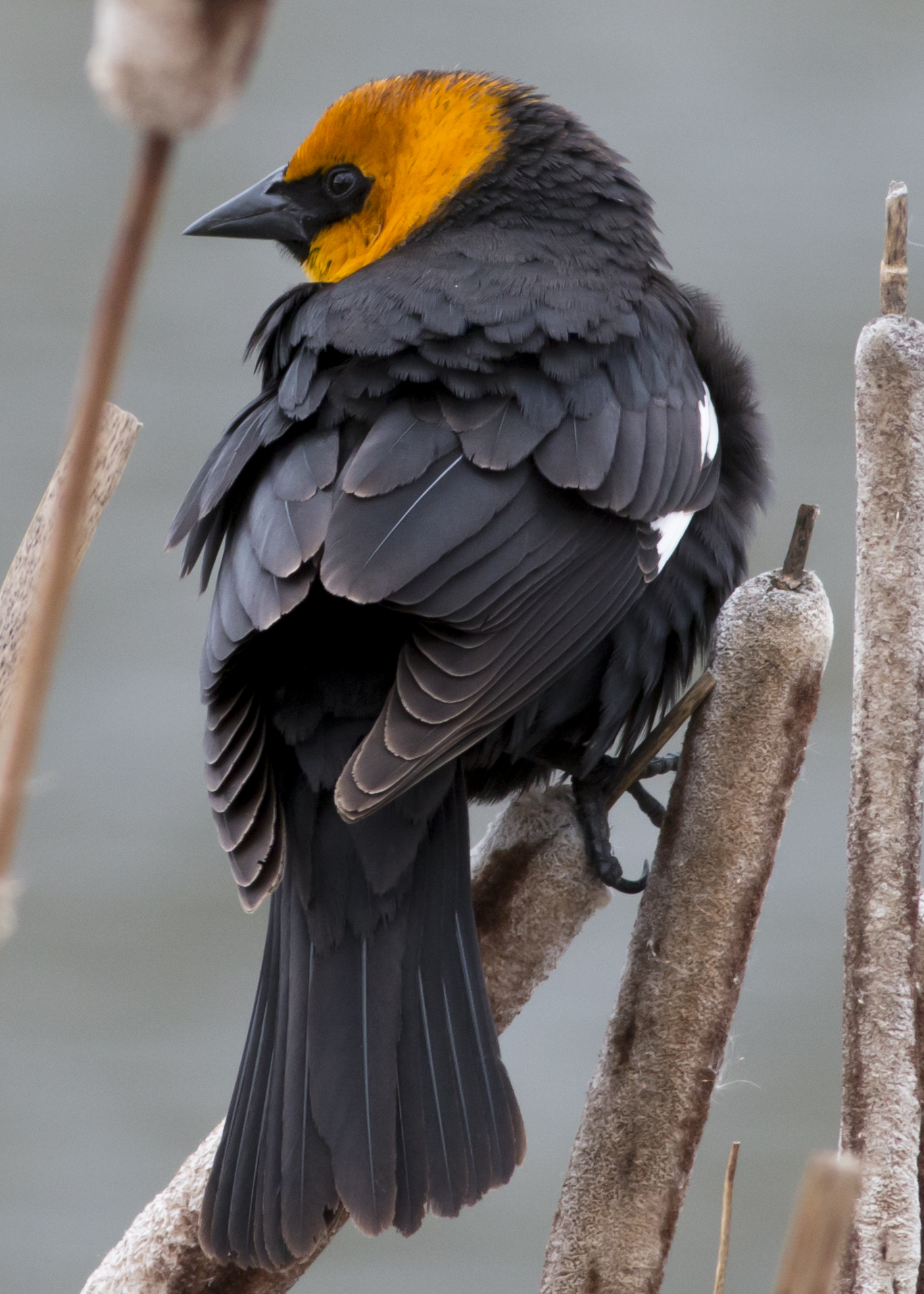 In British Columbia on the Okanagan Campus of UBC, by Tutt's Pond.